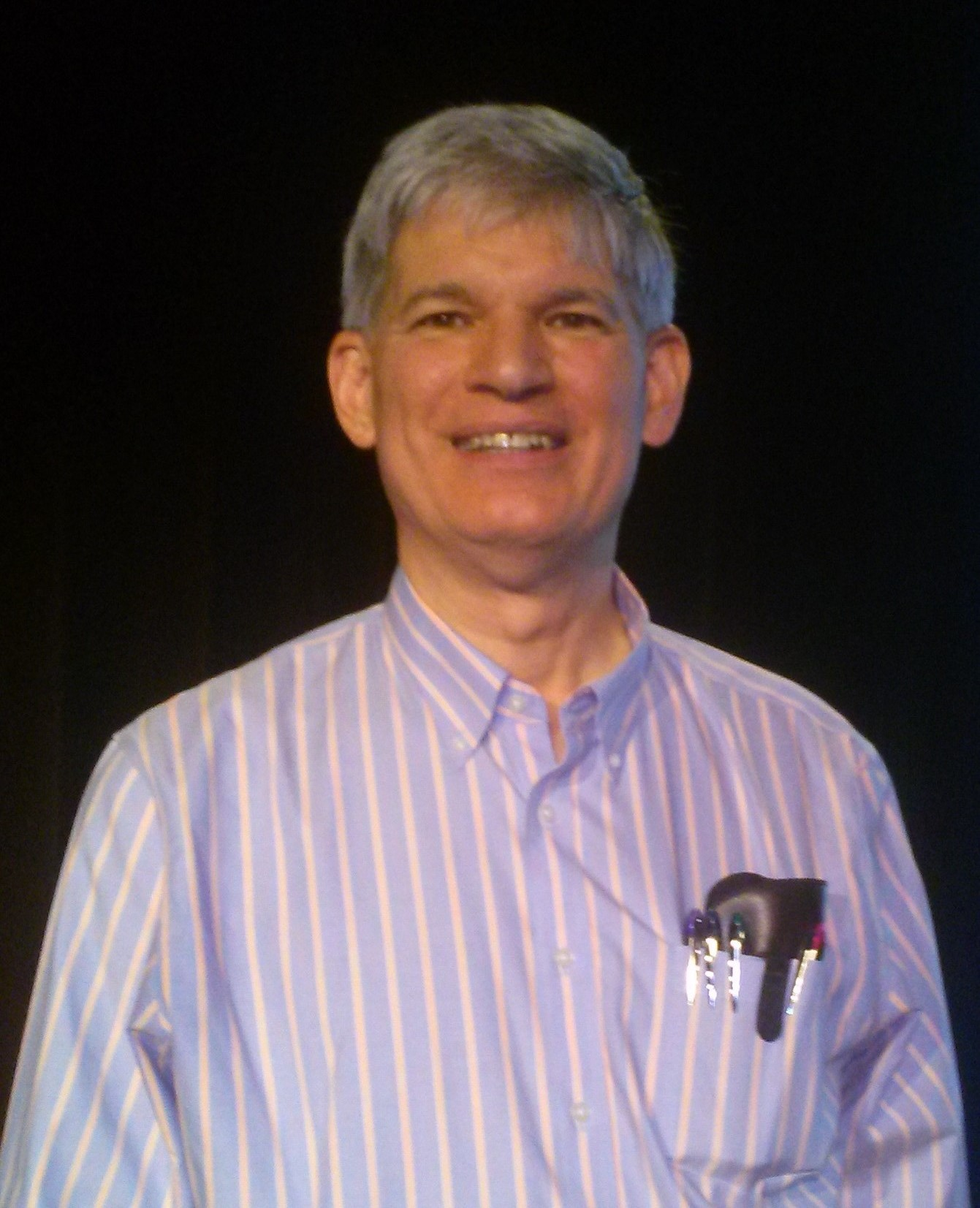 American computer scientist Guy Steele speaking at Google Boston.